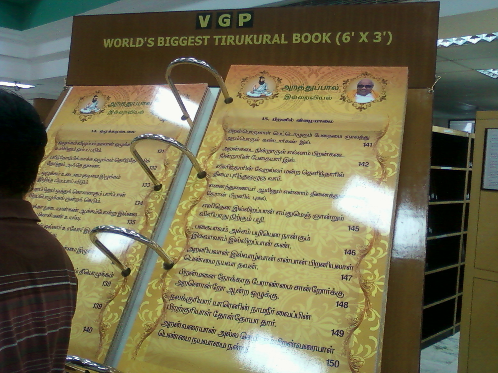 World's largest Thirukkural Book kept in library of VIT University